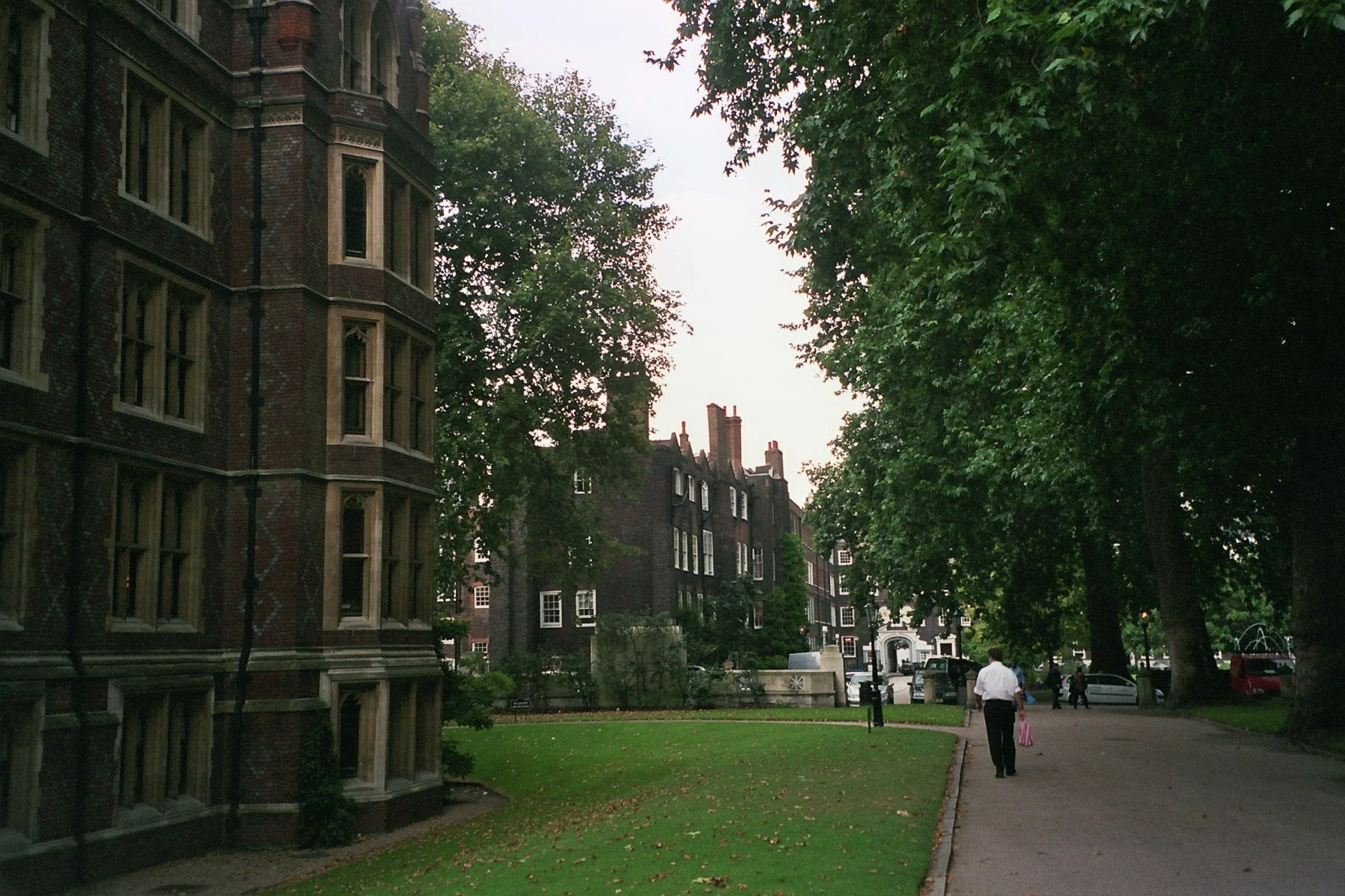 London, Lincoln's Inn ?